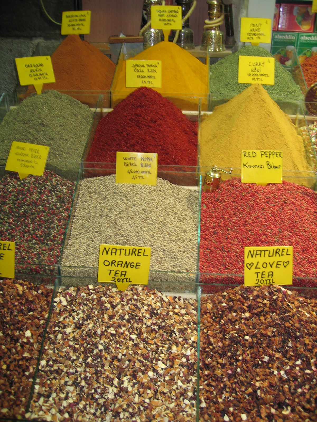 Spice_Bazaar: "The spice bazaar is located near the Grand Bazaar. You are able to find practically any spice or foodstuff here. It is a sumptuous delight of colours, shapes, tastes, and smells." (Turkey, Istanbul, Spice Bazaar)